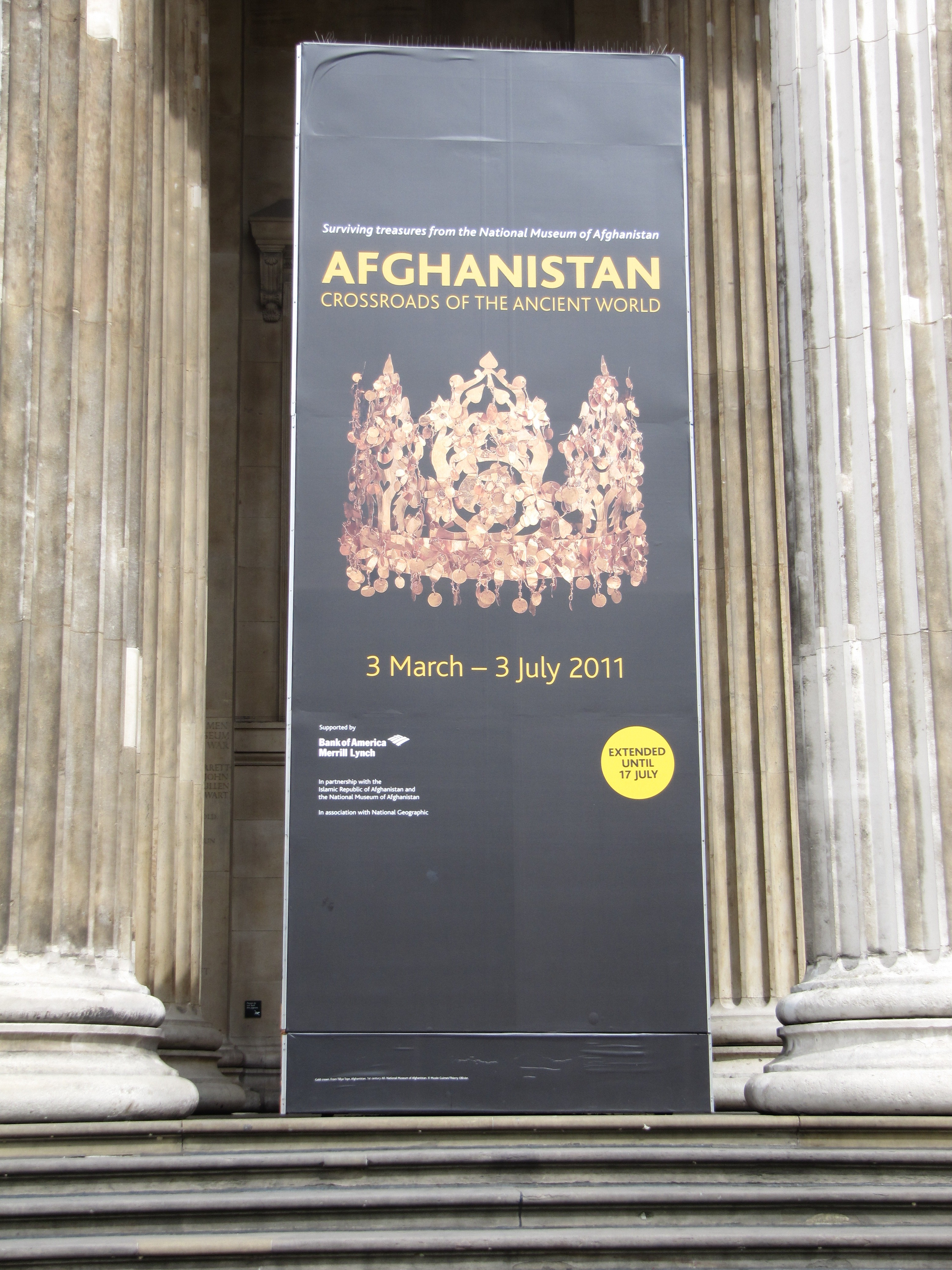 Afghanistan: Crossroads of the Ancient World - signage on the steps of the British Museum, May 2011, Personal photograph.